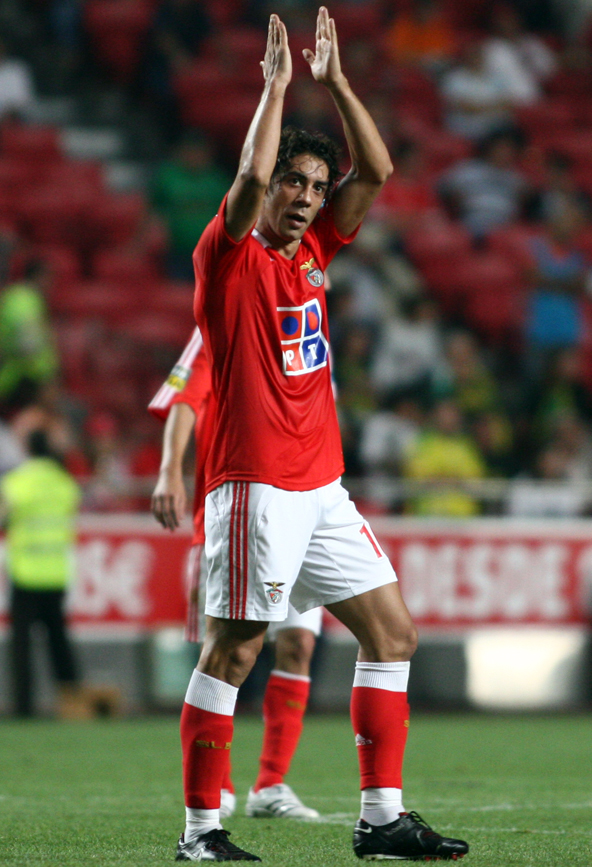 Rui Costa after scoring Benfica's 2nd Goal (Benfica vs. Naval: 3-0, 15. September 2007)